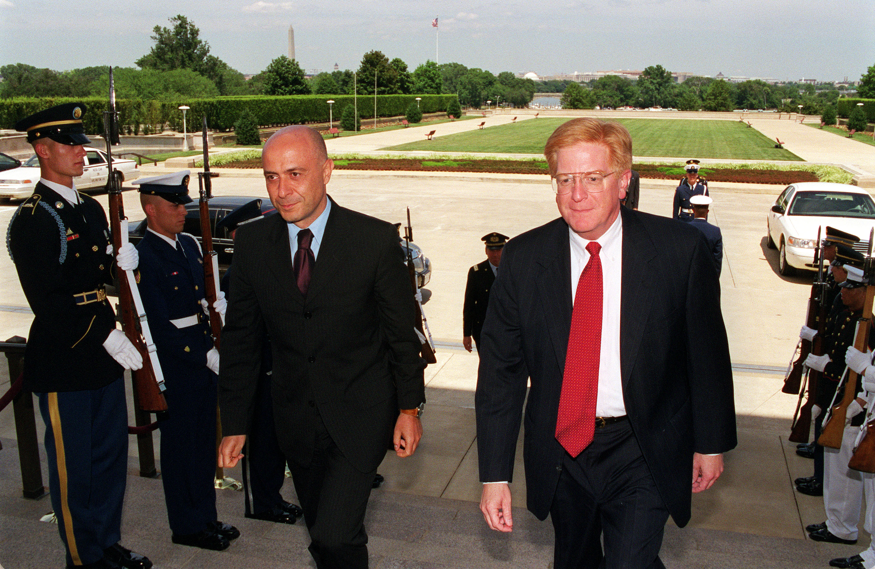 Italian Under Secretary of State Marco Minniti (left) is escorted by Deputy Secretary of Defense Rudy de Leon (right) through an honor cordon as he arrives at the Pentagon on July 12, 2000.